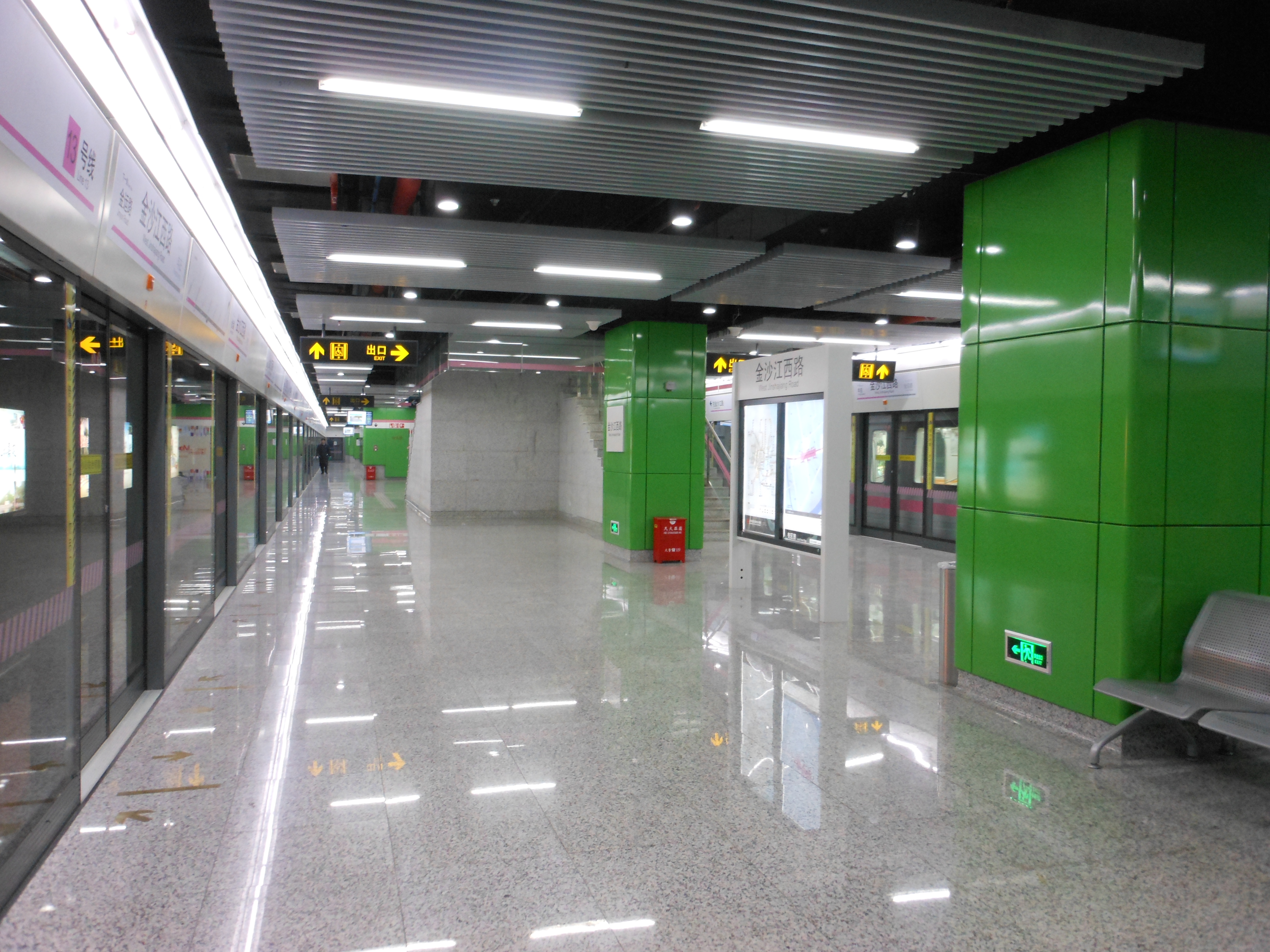 Line 13 Platform of West Jinshajiang Road Station